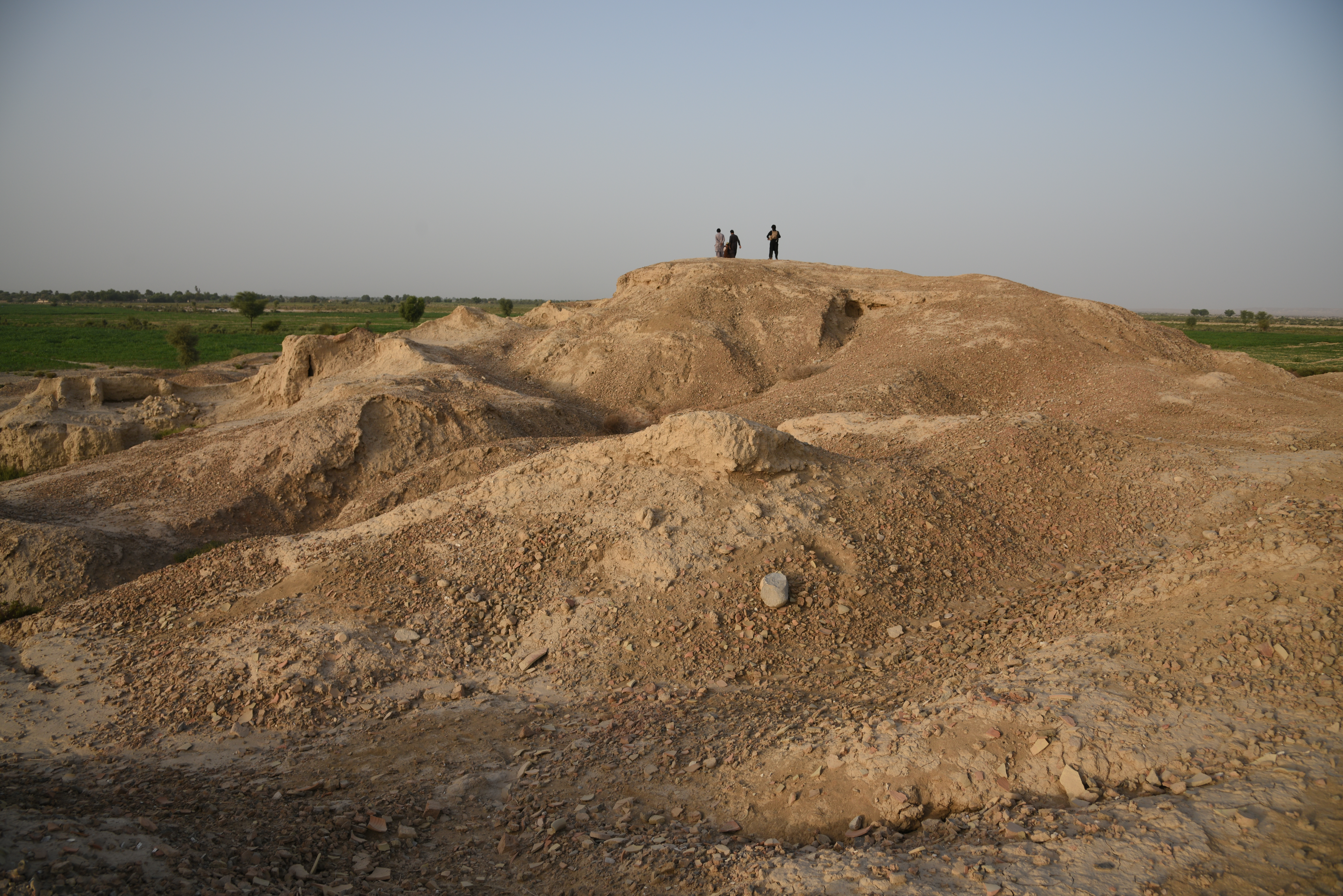 Archaeological Site of Mehrgarh This is a photo of a monument in Pakistan identified as the BA-28